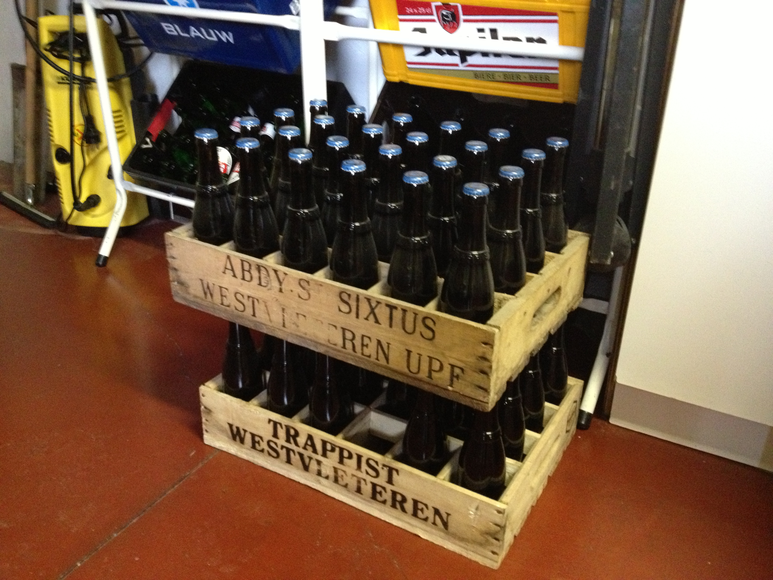 Westvleteren beer box crate